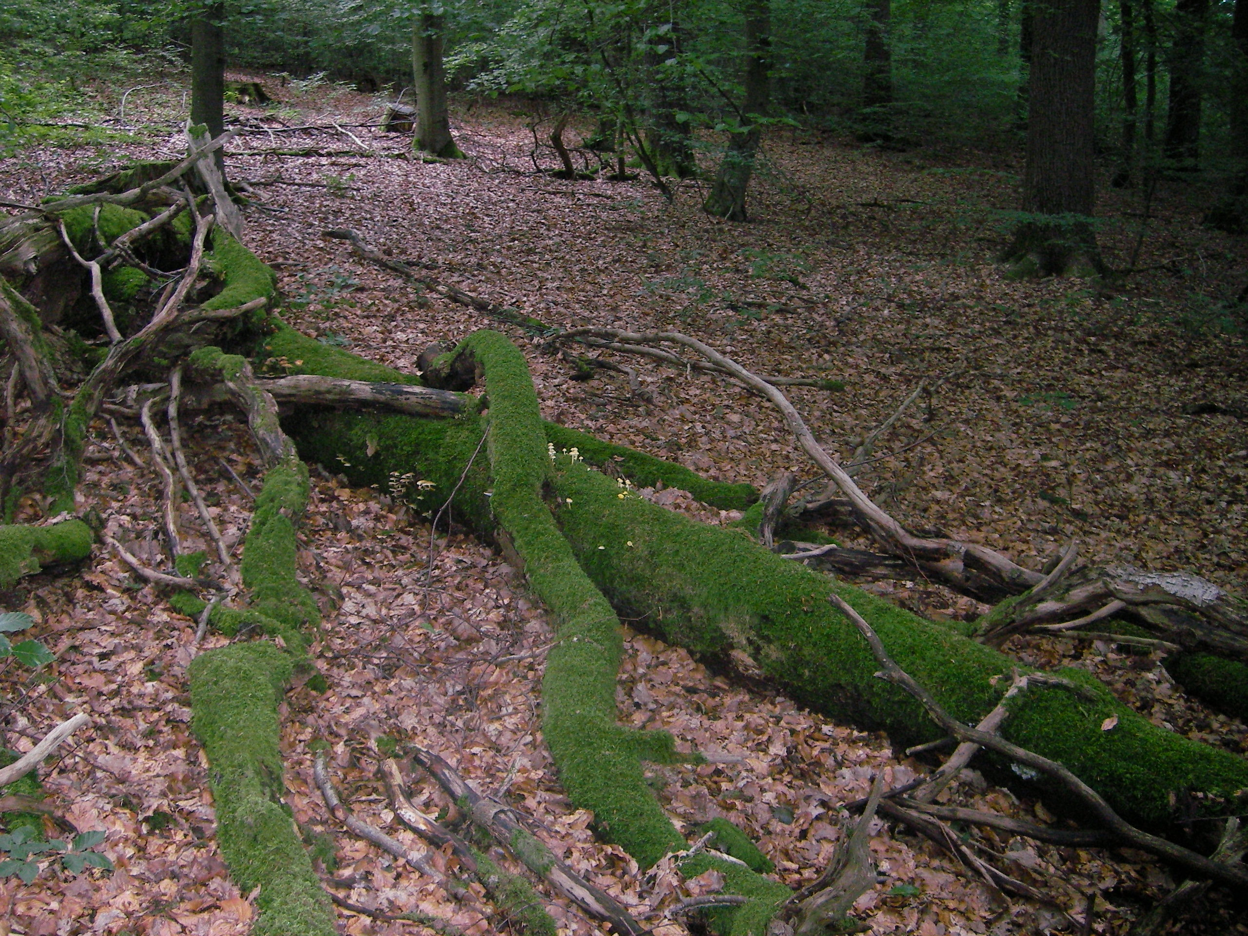 Nature preserve Seelbachs- und Eulenbruchswald, Freudenberg, Germany. Habitat of Hypholoma fasciculare